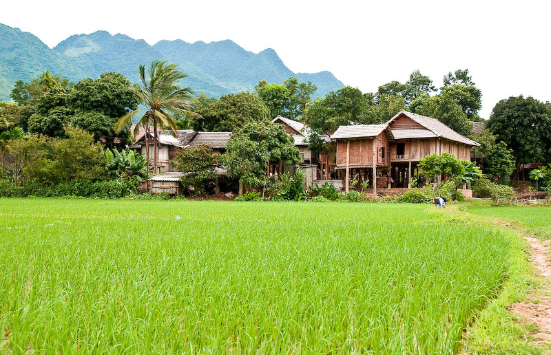 A scenery of Mai Chau, Hoa Binh, Vietnam.